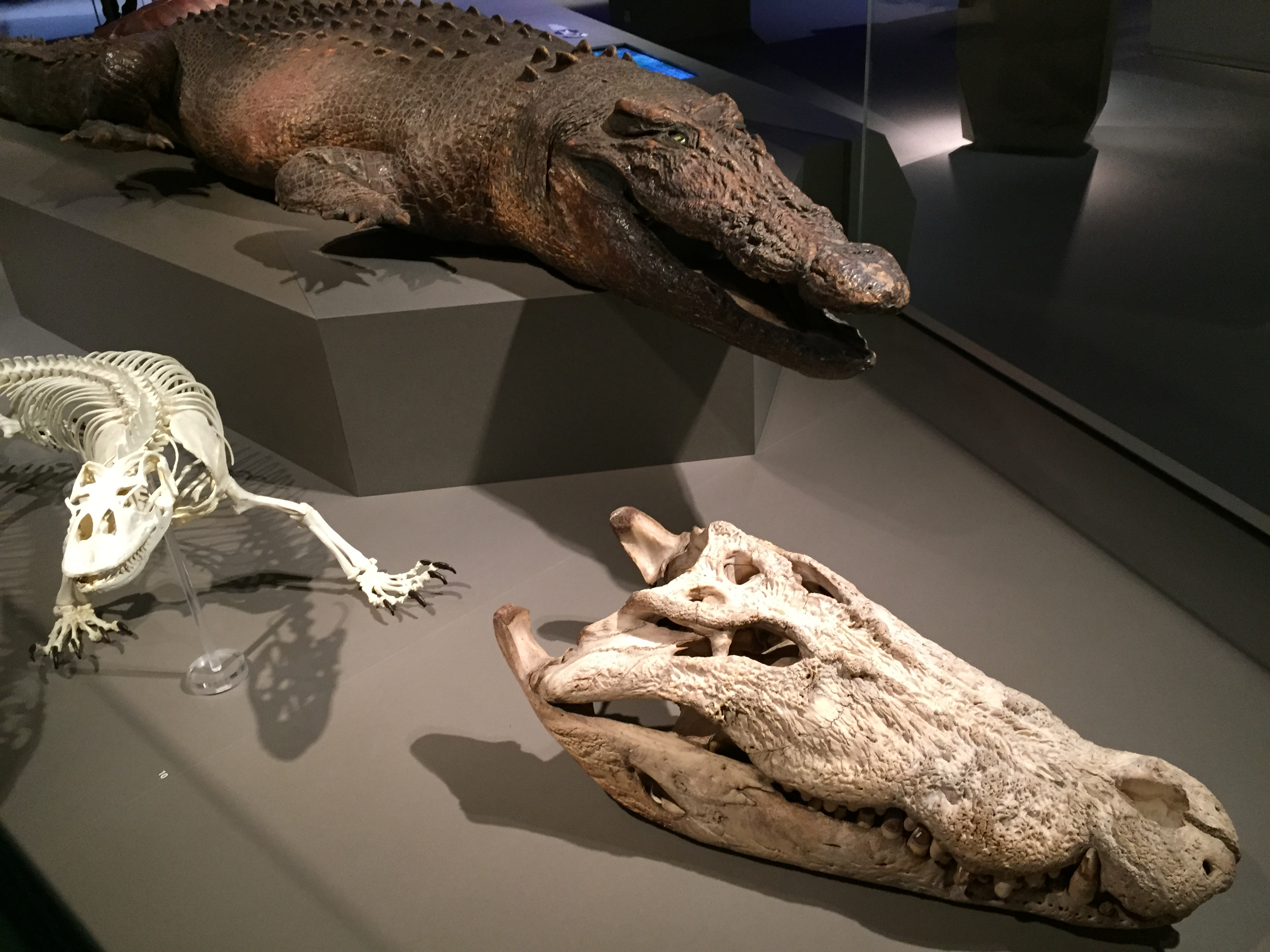 A taxidermied estuarine crocodile (or saltwater crocodile; Crocodylus porosus) from Singapore in 1888, and a skull of the same animal from Singapore in the 1900s, at the Lee Kong Chian Natural History Museum, National University of Singapore.